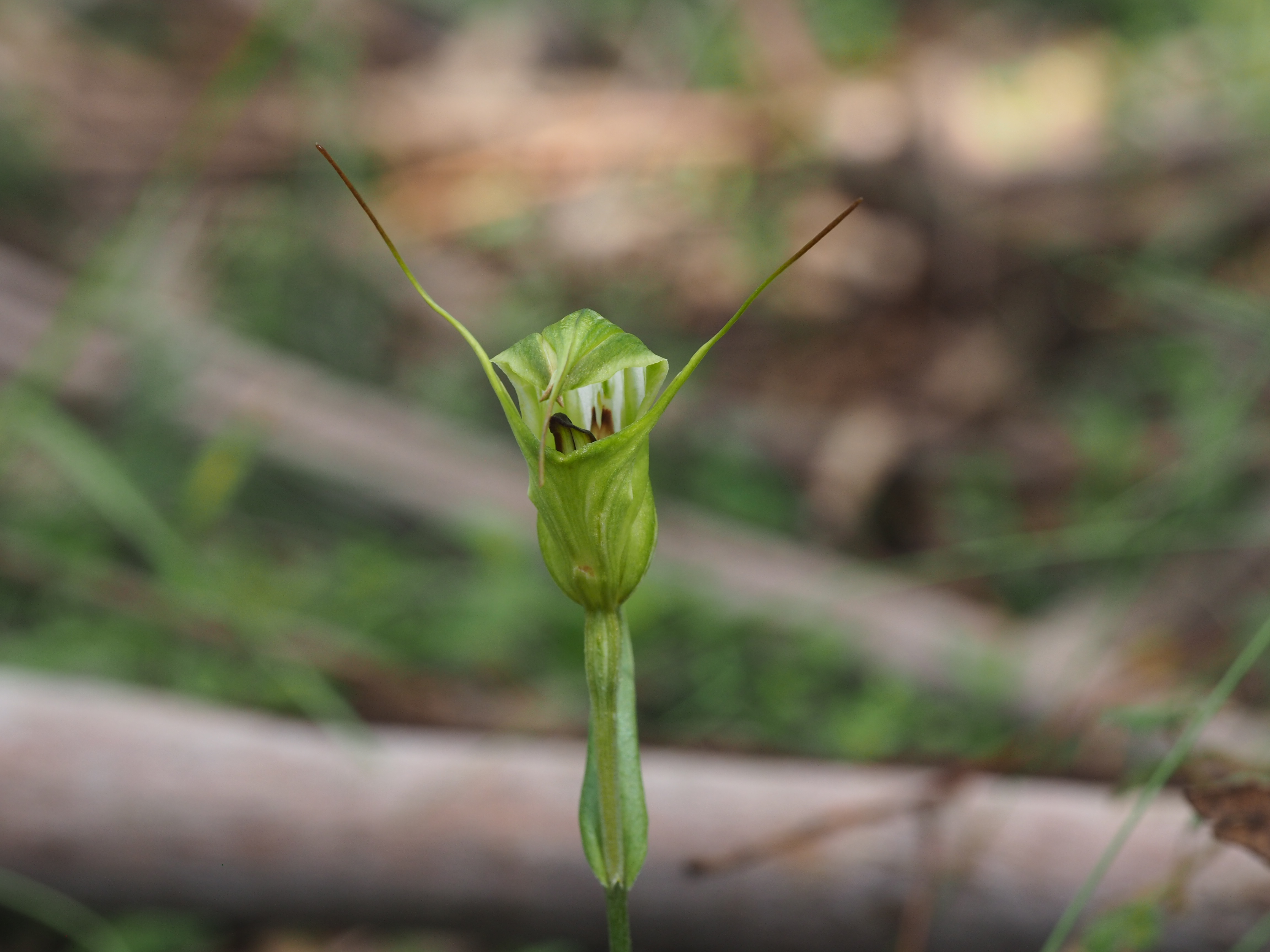 Pterostylis metcalfei (front view) near Ebor